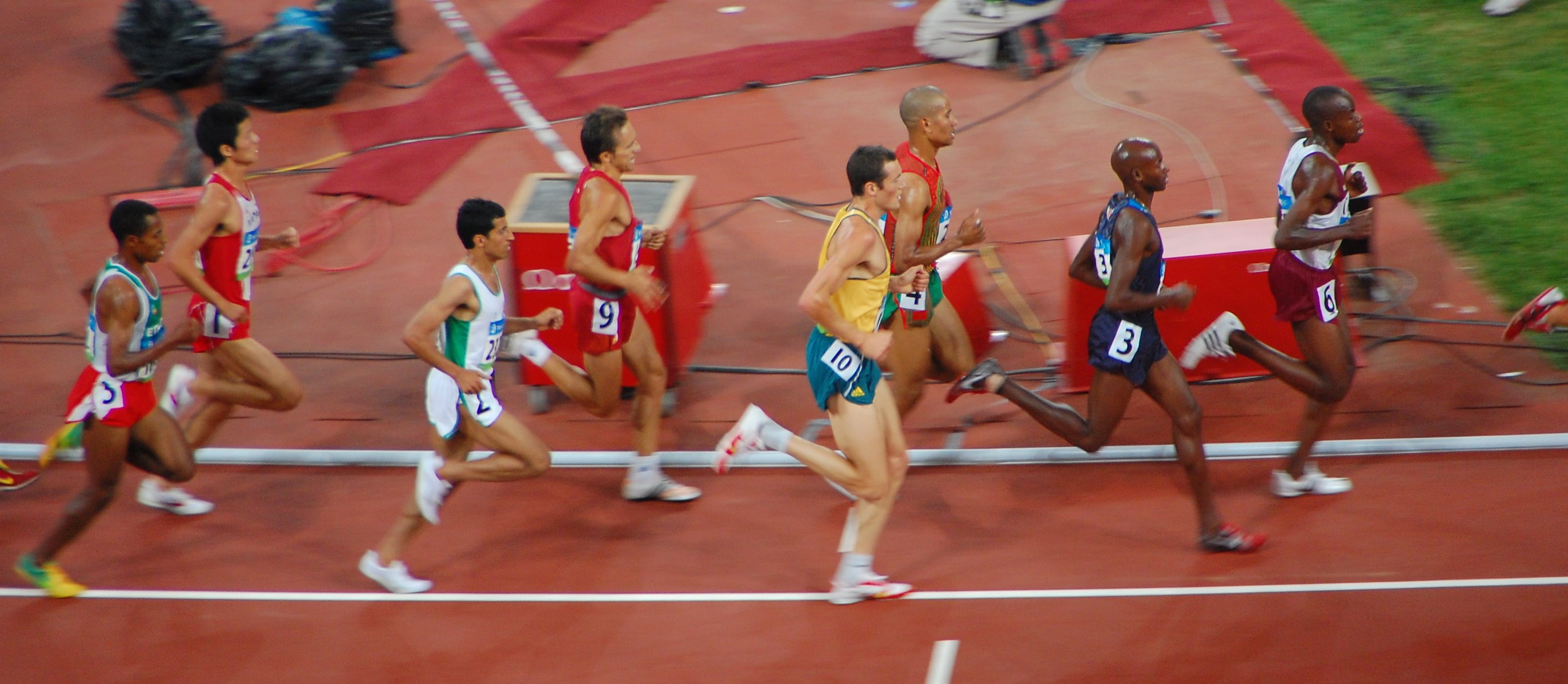 2008 Summer Olympics - Men's 5000m Round 1 - Heat 3 1 TAKEZAWA Kensuke 2 AL-OUTAIBI Moukheld 3 LAGAT Bernard 4 ENNAJI EL IDRISSI Abdelaziz 5 BEKELE Kenenisa 6 C'KURUI James Kwalia 7 LONGOSIWA Thomas Pkemei 9 GARCIA Alberto 10 MOTTRAM Craig